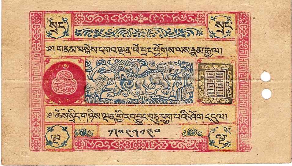 Tibetan 5 srang banknotes, undated.